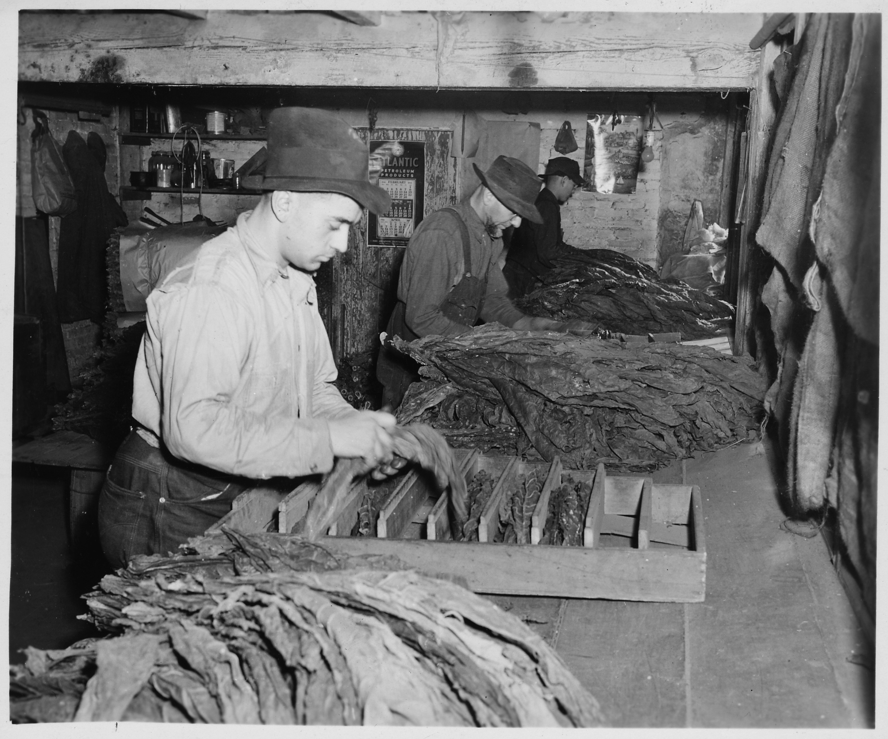 Scope and content: Full caption reads as follows: Lancaster County, Pennsylvania. Stripping tobacco is one of the more important farm operations carried on through the winter in Lancaster County. The three men shown here are Church Amish.